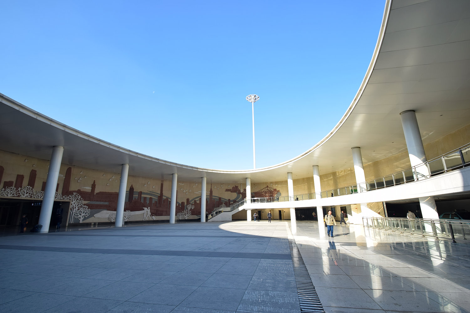 Sunken Square & Taxi Station at Back Square of Tianjin Railway Station